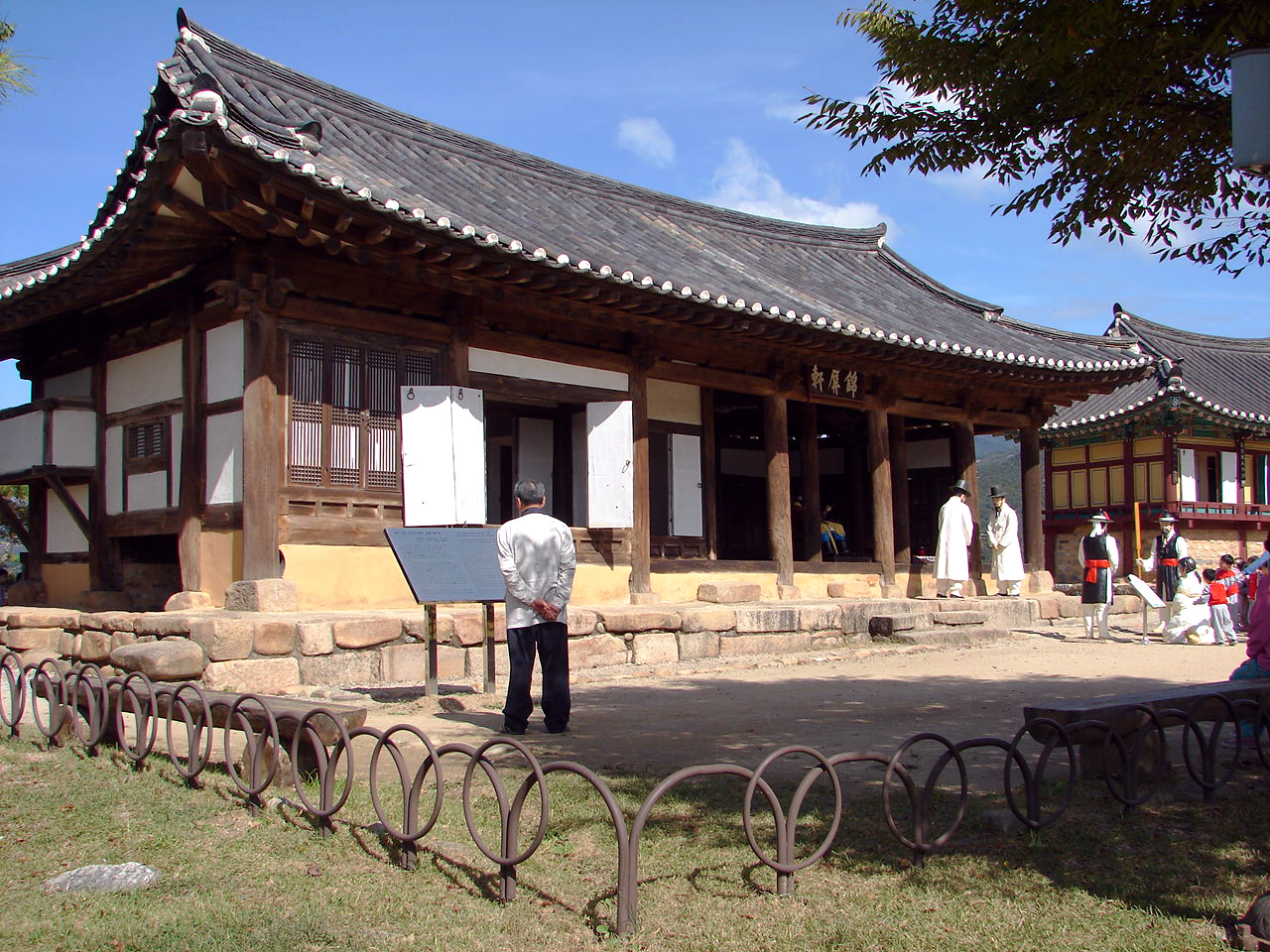 Geumbyeong-heon (hall) was built by magistrate Do-il in 1681. Another magistrate, Bak Pilmun, relocated the hall in 1726 and renamed it Geumbyeong-heon. It has a wooden structure with a floor space of 132 square meters. With a half-gabled and half-hipped roof, the hall has six bays on the front and three on the side elevations. Cheongpung Cultural Properties Complex - located by the Chungjuho Lake. This complex is a reconstructtion of Cheongpung, a village that became submerged after the construction of Chungju Dam. It took three years to relocate the buildings and structures in the current site at a cost of of over 1.6 trillion won. Designated North Chungcheong Province Tangible Cultural Property #34